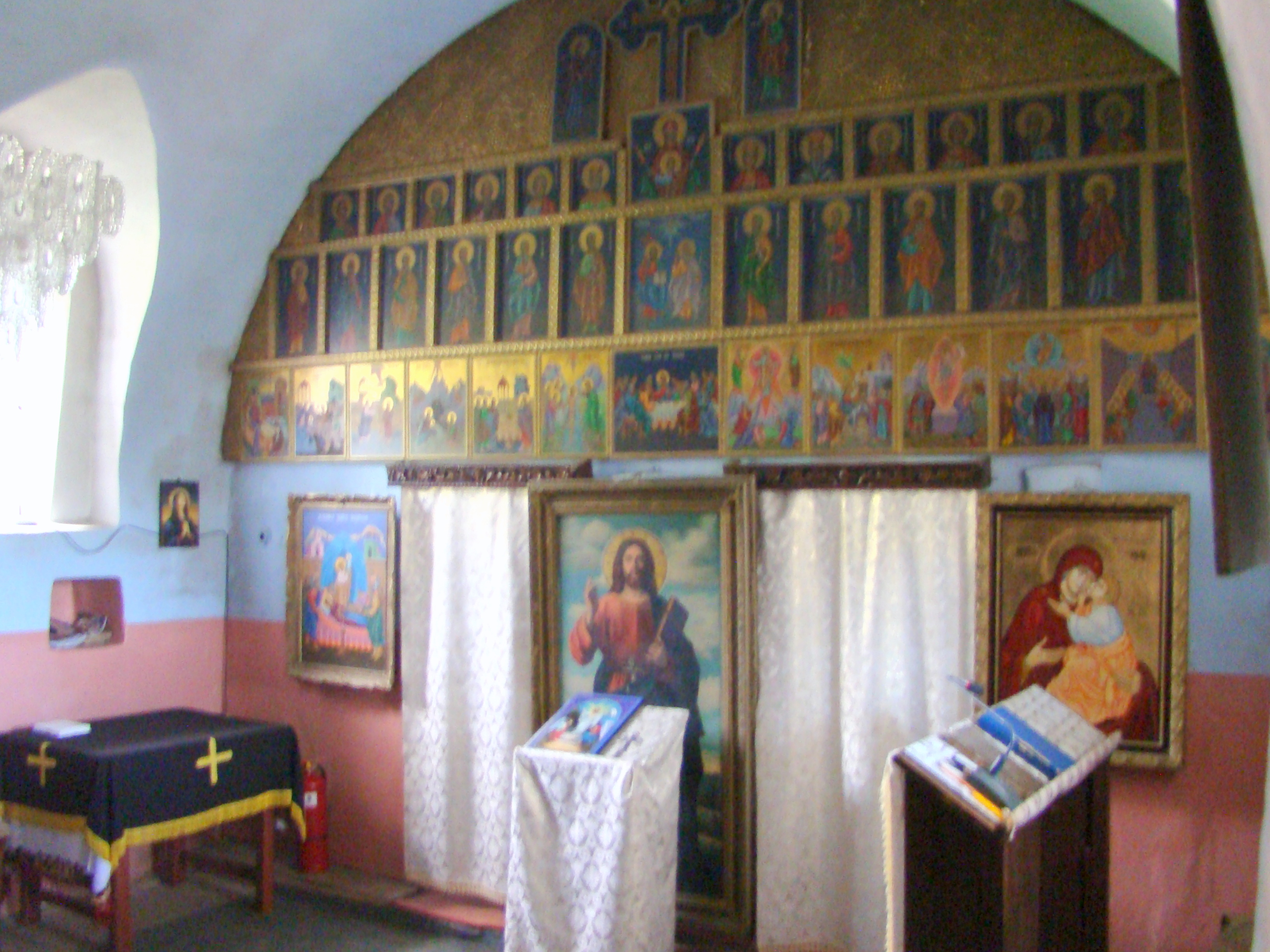 Church of the Dormition in Livezile, Alba county, Romania